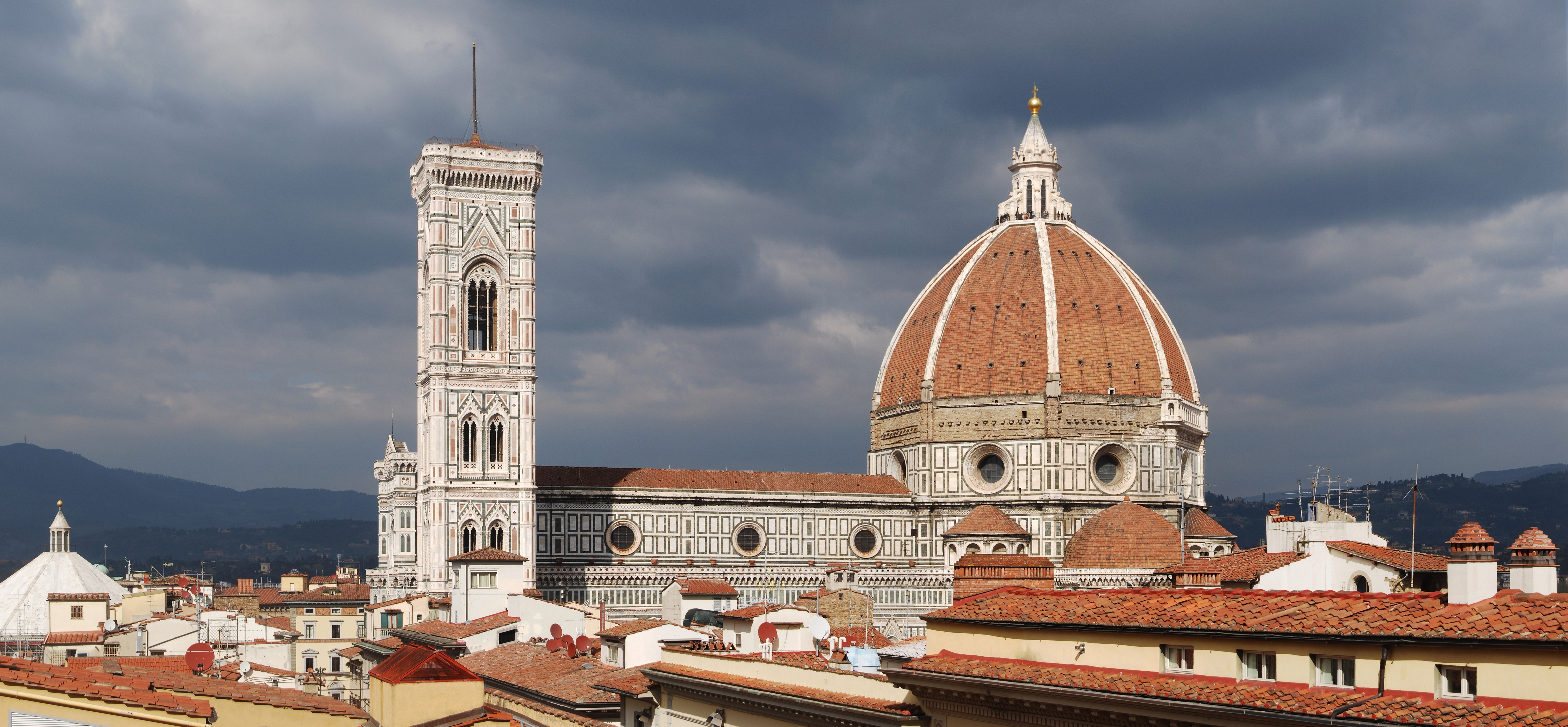 The Florence Cathedral (Cattedrale di Santa Maria del Fiore), the fourth largest church of Europe with the biggest brickwork dome of the world.